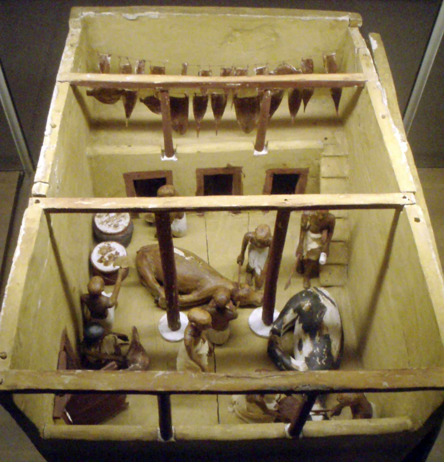 A funerary model of a slaughter house, dating the 11th dynasty, circa 2009-1998 B.C. Painted and gessoed wood, originally from Thebes.